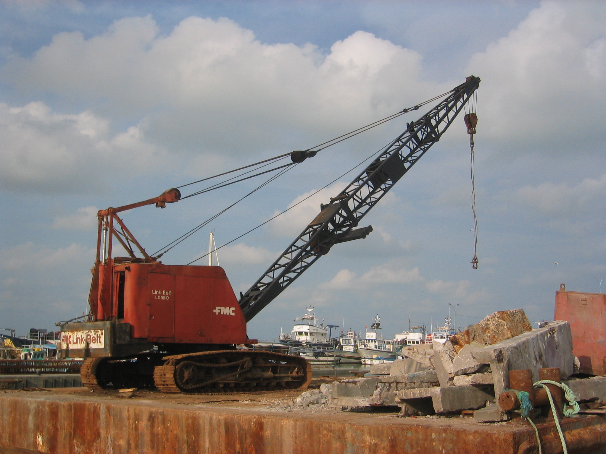 Zarzis, Tunisia